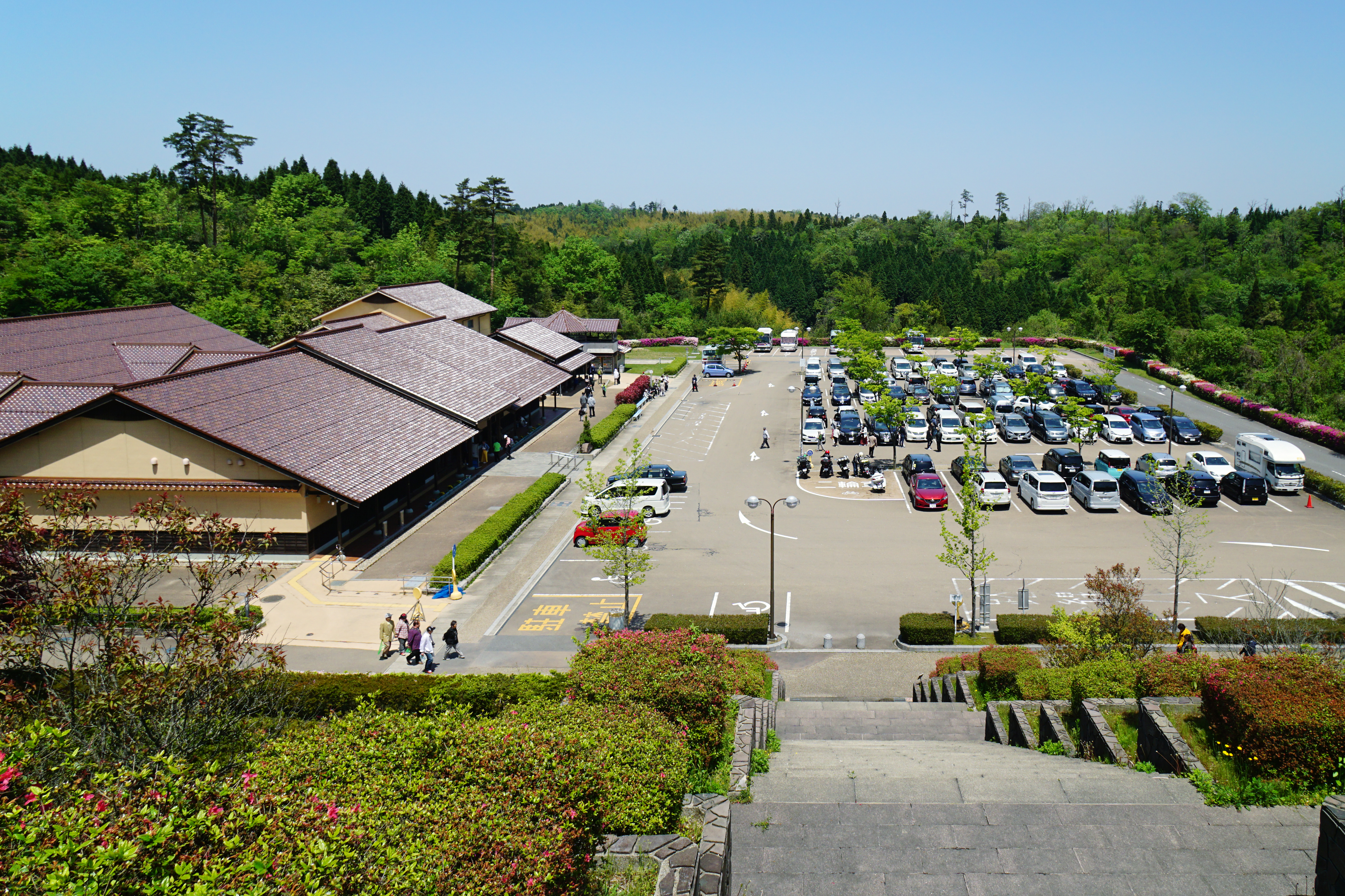 Iwami_Ginzan_World_Heritage_Center in Ōda, Shimane prefecture, Japan.